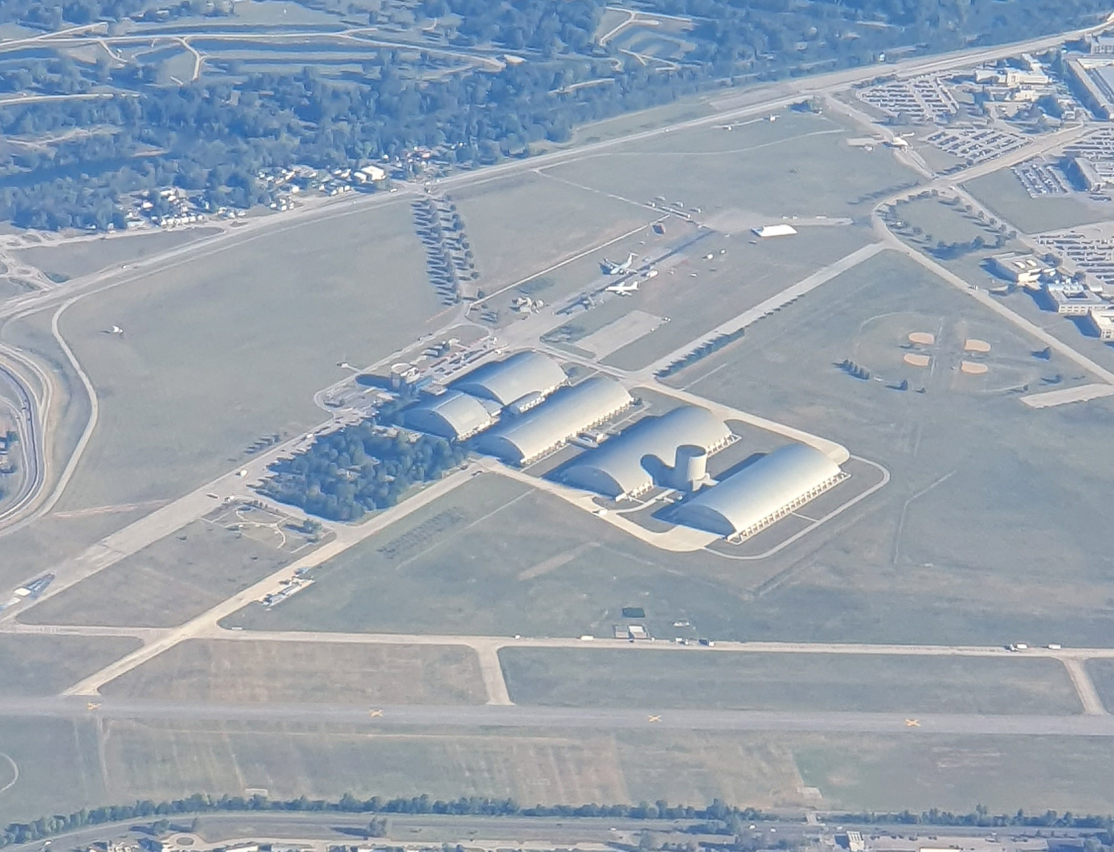 Overview of the National Museum of the USAF, Dayton, OH, 2019, after take-off from the Dayton International Airport (DAY)